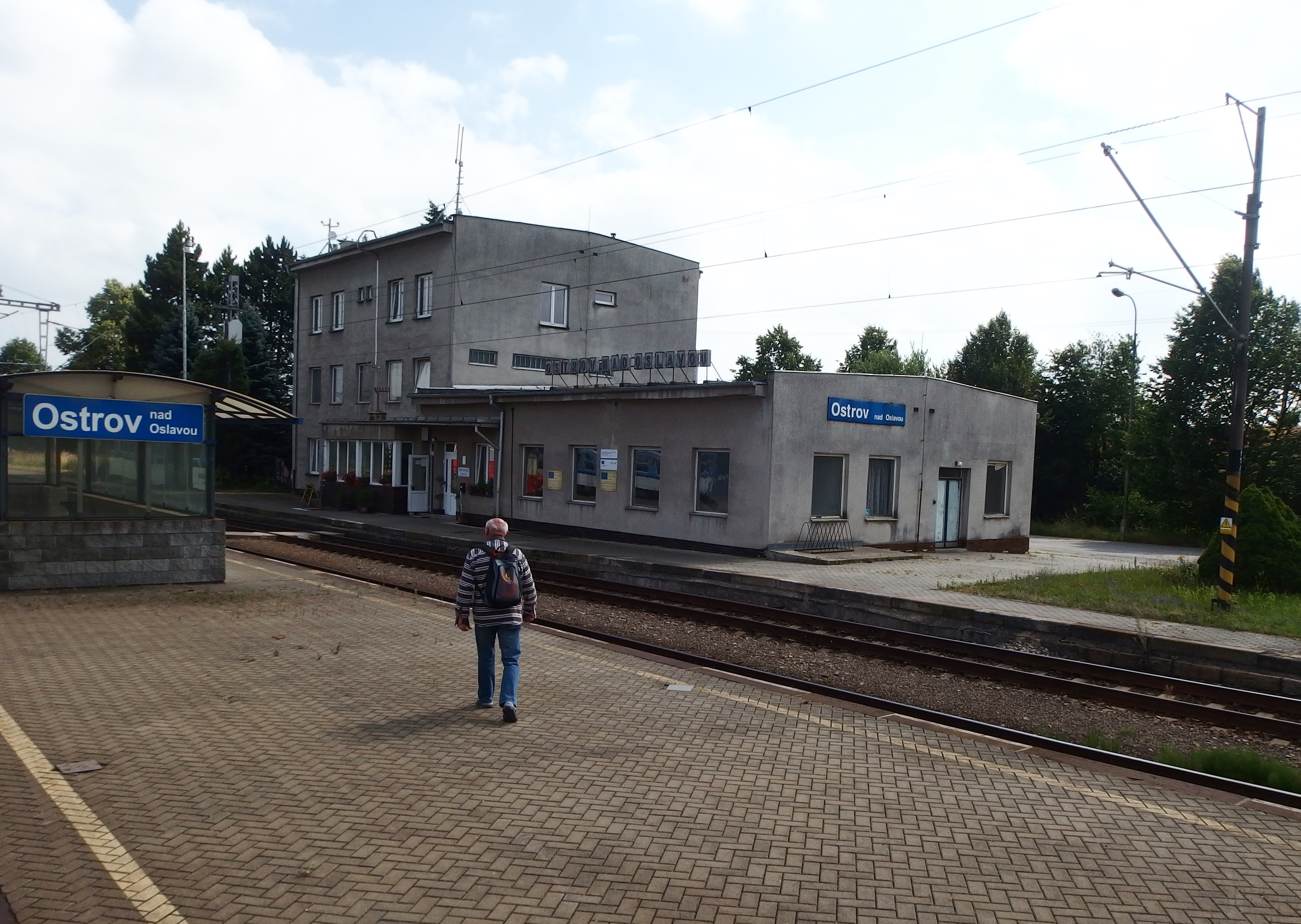 Ostrov nad Oslavou, Žďár nad Sázavou District, Czechia.